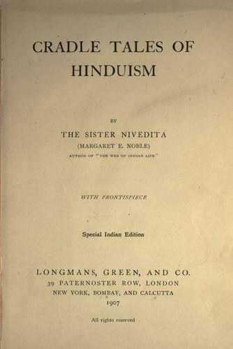 Title page of 1907 book Cradle Tales of Hinduism written by Sister Nivedita